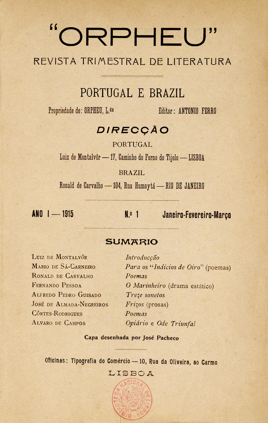 Literary Journal "Orpheu - Revista Trimestral de Literatura" Nr. 1 Jan. Feb. Mar. 1915